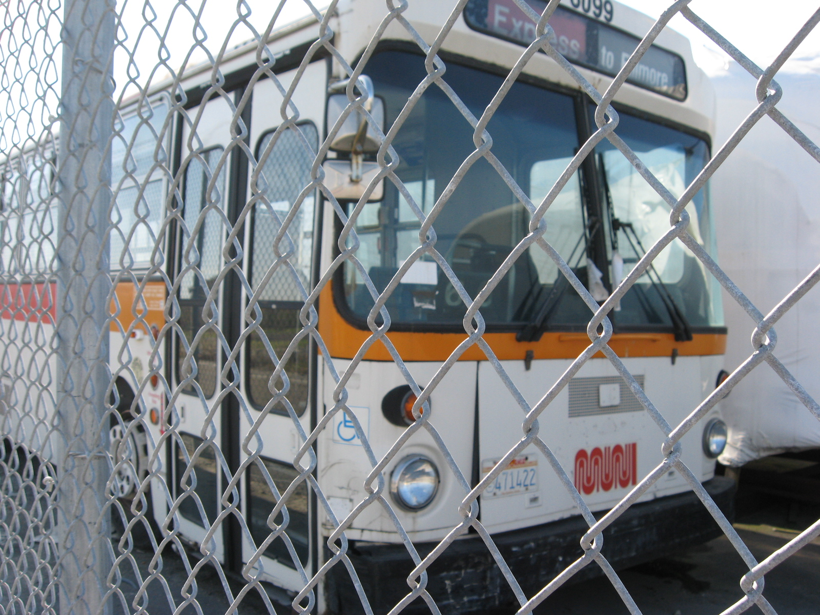 A MAN AG bus in Marin Division. This bus has not run since March 7, 2002, and is now in the Muni's Historic Fleet.